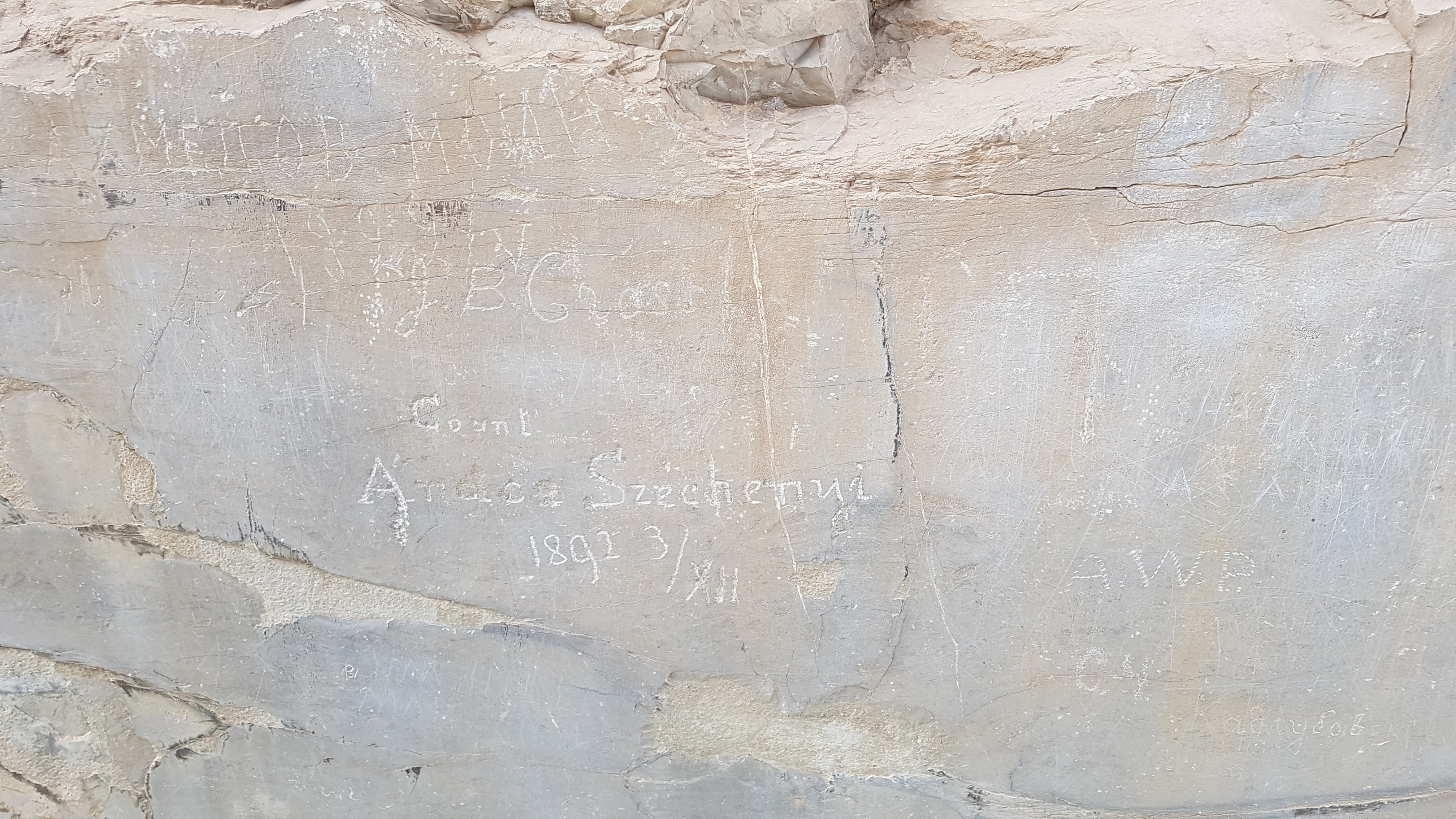 Carving by Andor Szechenyi on the Gate of All Nations in Persepolis